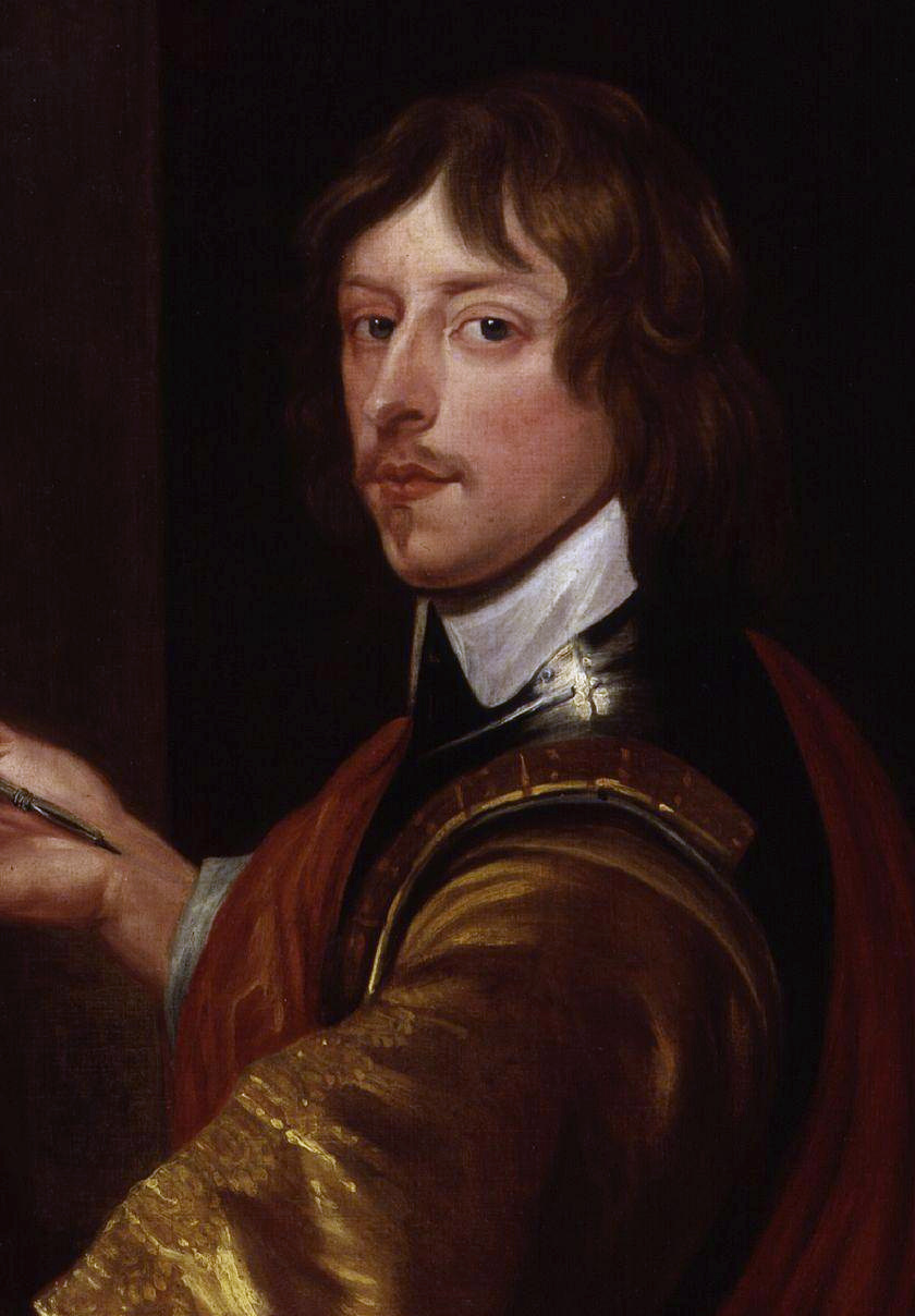 Mountjoy Blount, 1st Earl of Newport; George Goring, Baron Goring